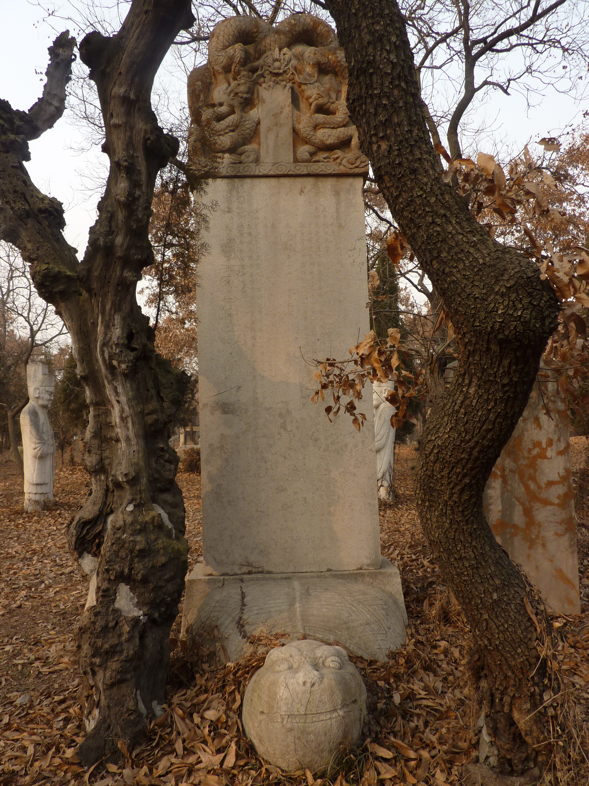 The area in the Ming (western) part of the Cemetery of Confucius where the ten Dukes of Yansheng, who were the leaders of the Kong clan (55th through 64th generation in the direct line of descent from Confucius) and the feudal rulers of Qufu, have been buried. Each of the ten dukes appears to have his own "spirit road" (shendao), i.e. a a path lined with the statues of feline creatures (cat? lions? tigers?), rams, horses, warriors and officials, concluded with a stele-bearing bixi tortoise, and, finally, the actual tombstone. As elsewhere in China, the tombstones and the bixi normally face south, while the spirit way figures face each other, looking across the path that runs from the south to the north.